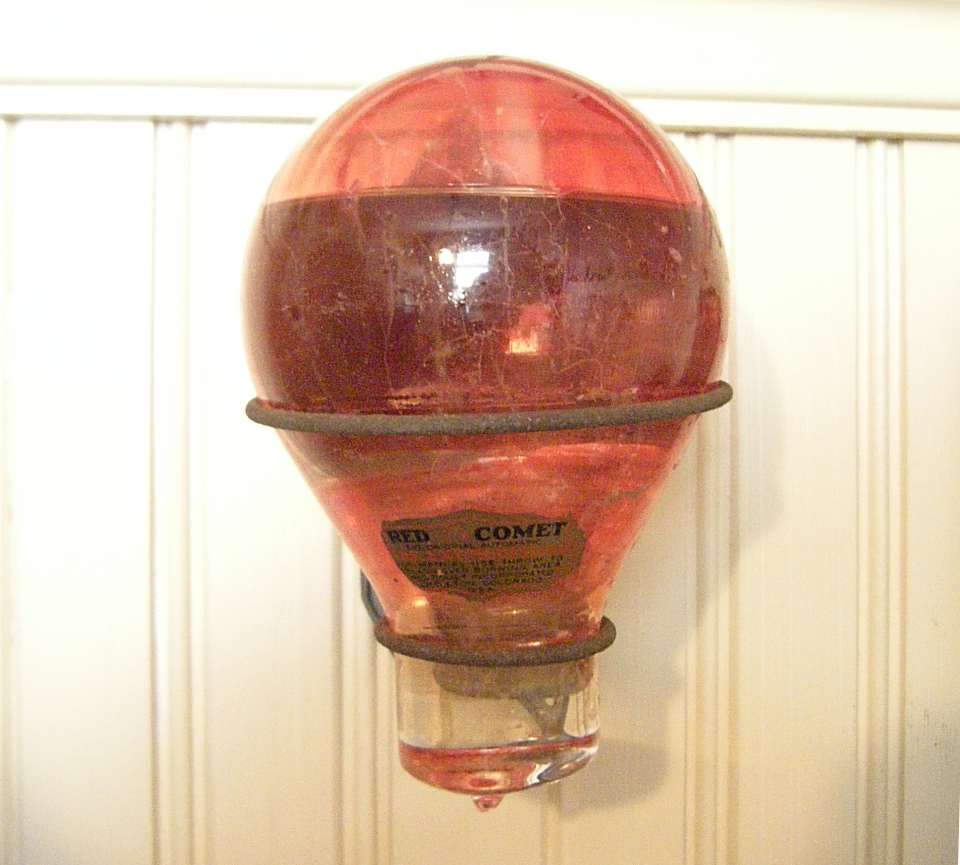 Comet-style / "grenade" style carbon tetrachloride fire extinguisher, Blackman House Museum, Snohomish, Washington, USA.